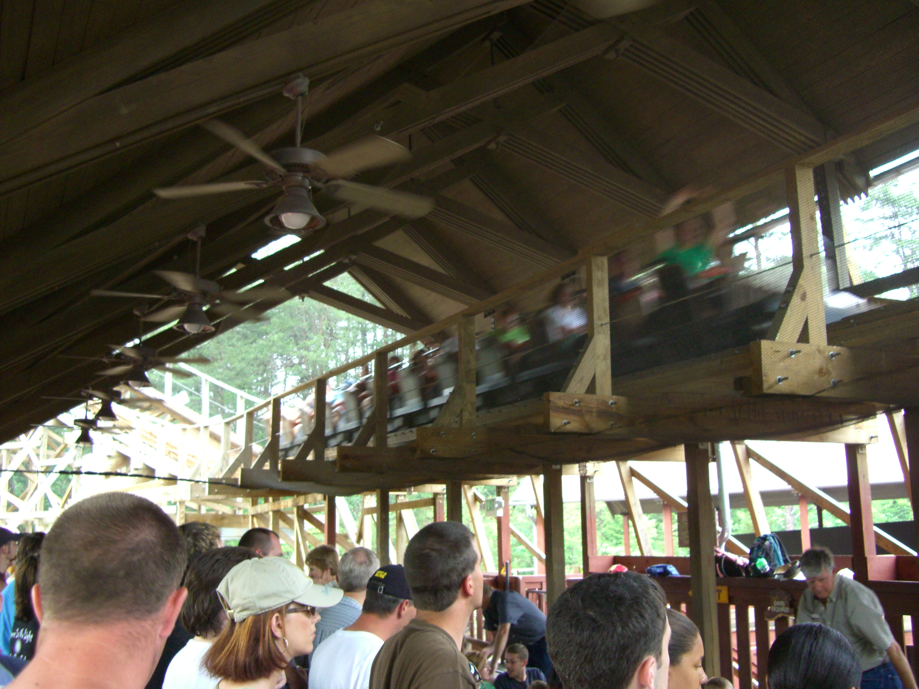 Thunderhead , montagnes russes à Dollywood